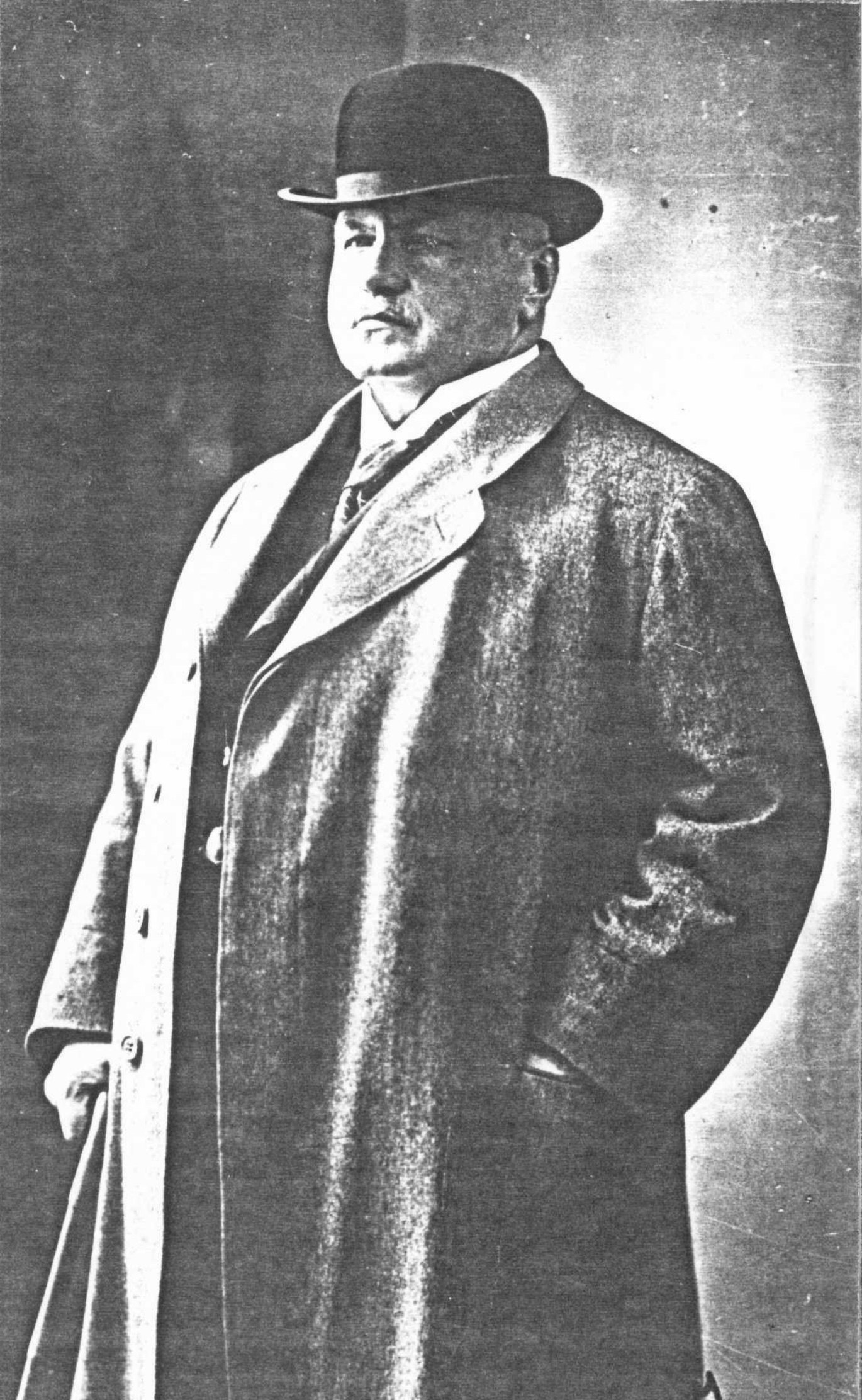 Landoberstallmeister Dr. hc. Christian v. Pentz